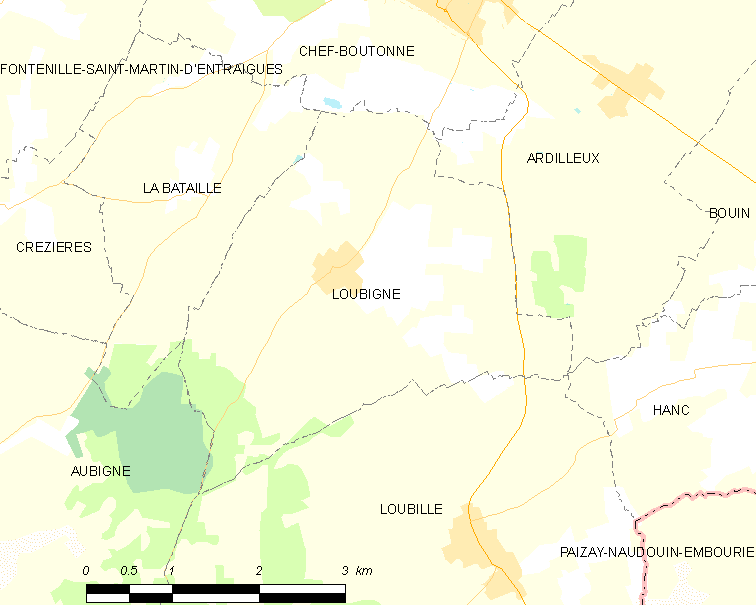 Map of French municipality Loubigné